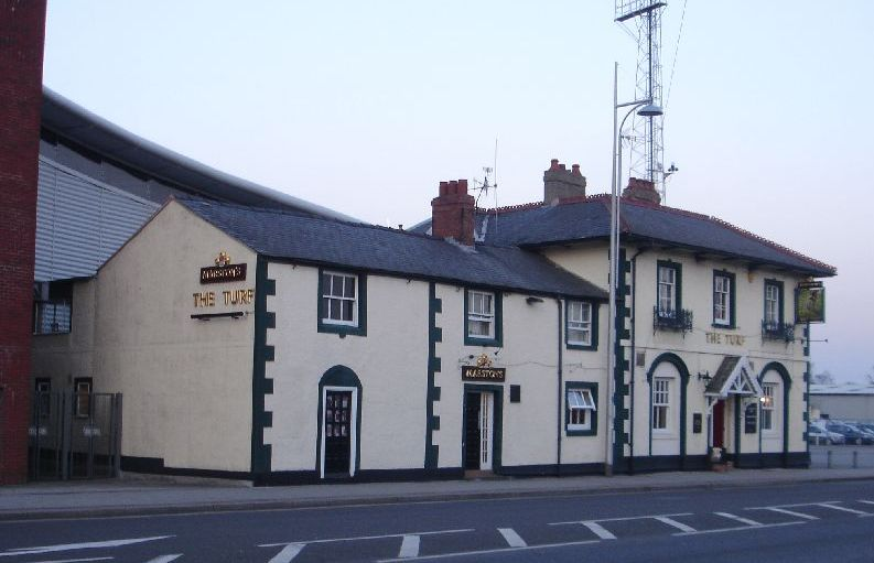 The Turf Hotel at Wrexham AFC's Racecourse Ground